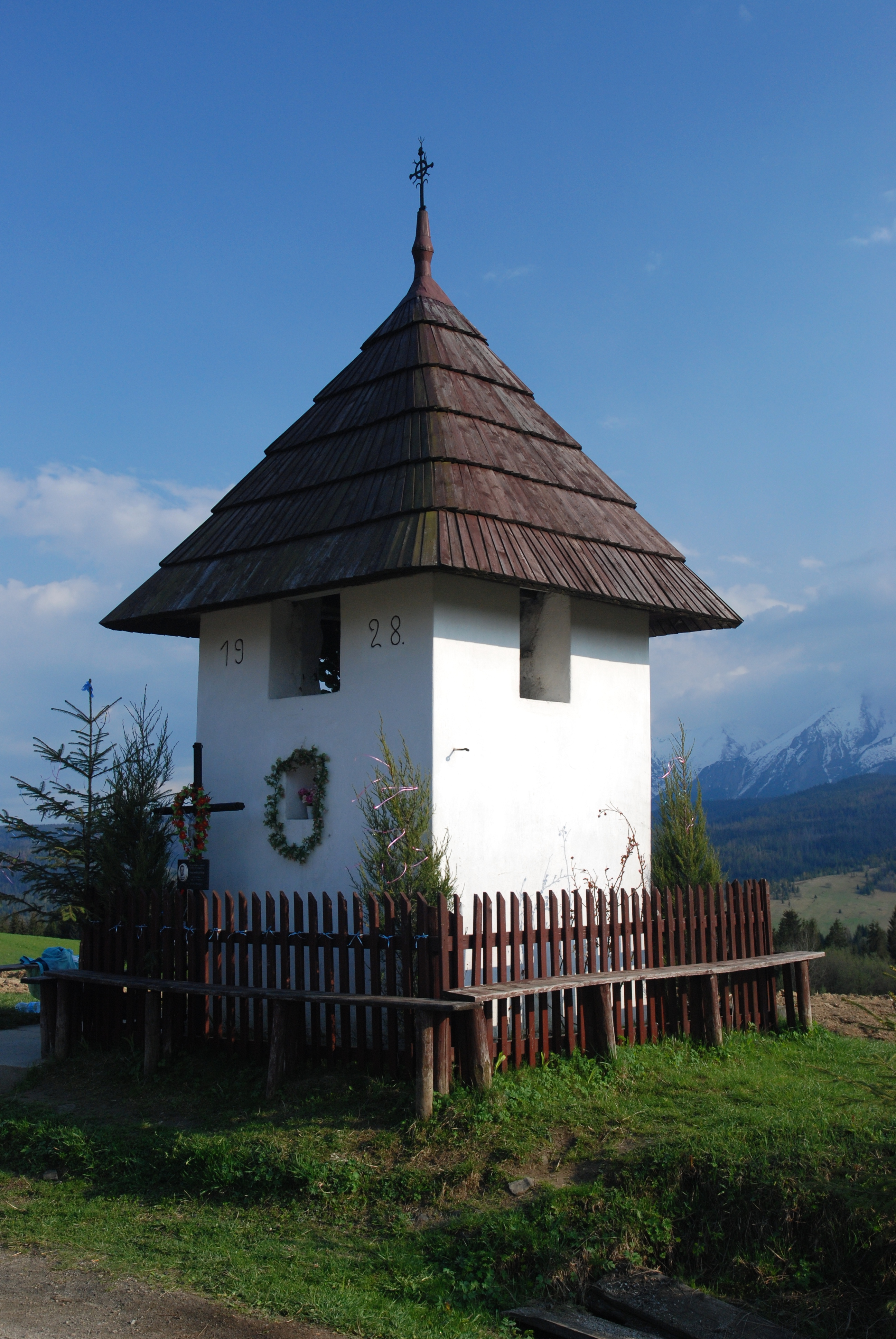 Chapel in Łapszanka, Poland